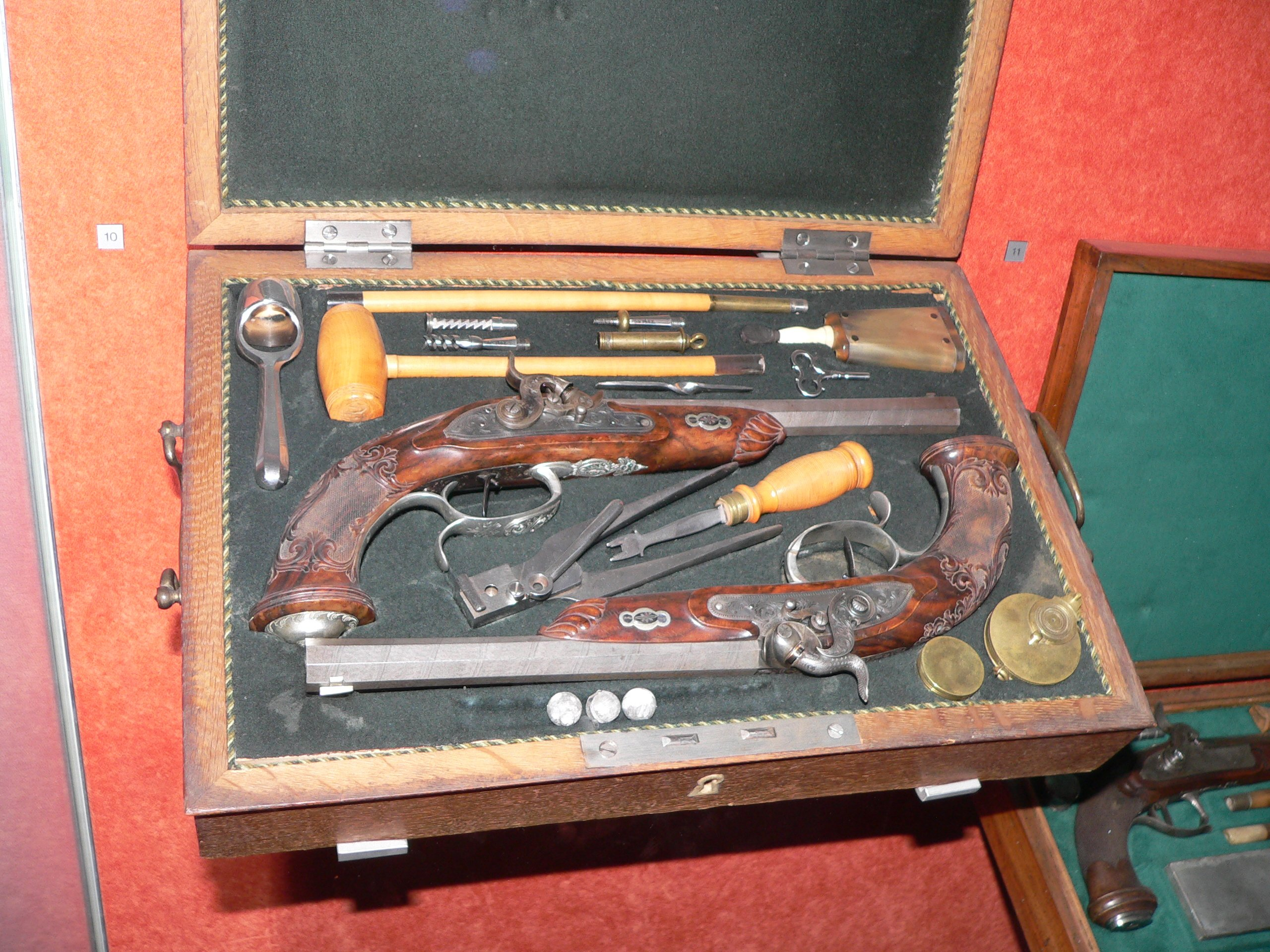 Pistols, musee d'Art et d'Histoire de Neuchatel